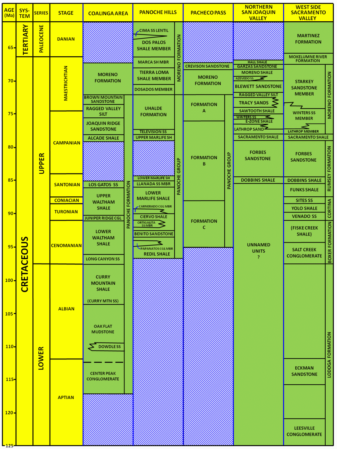 Sratigraphic column showing correlations of formations that make up the Great Valley Sequence